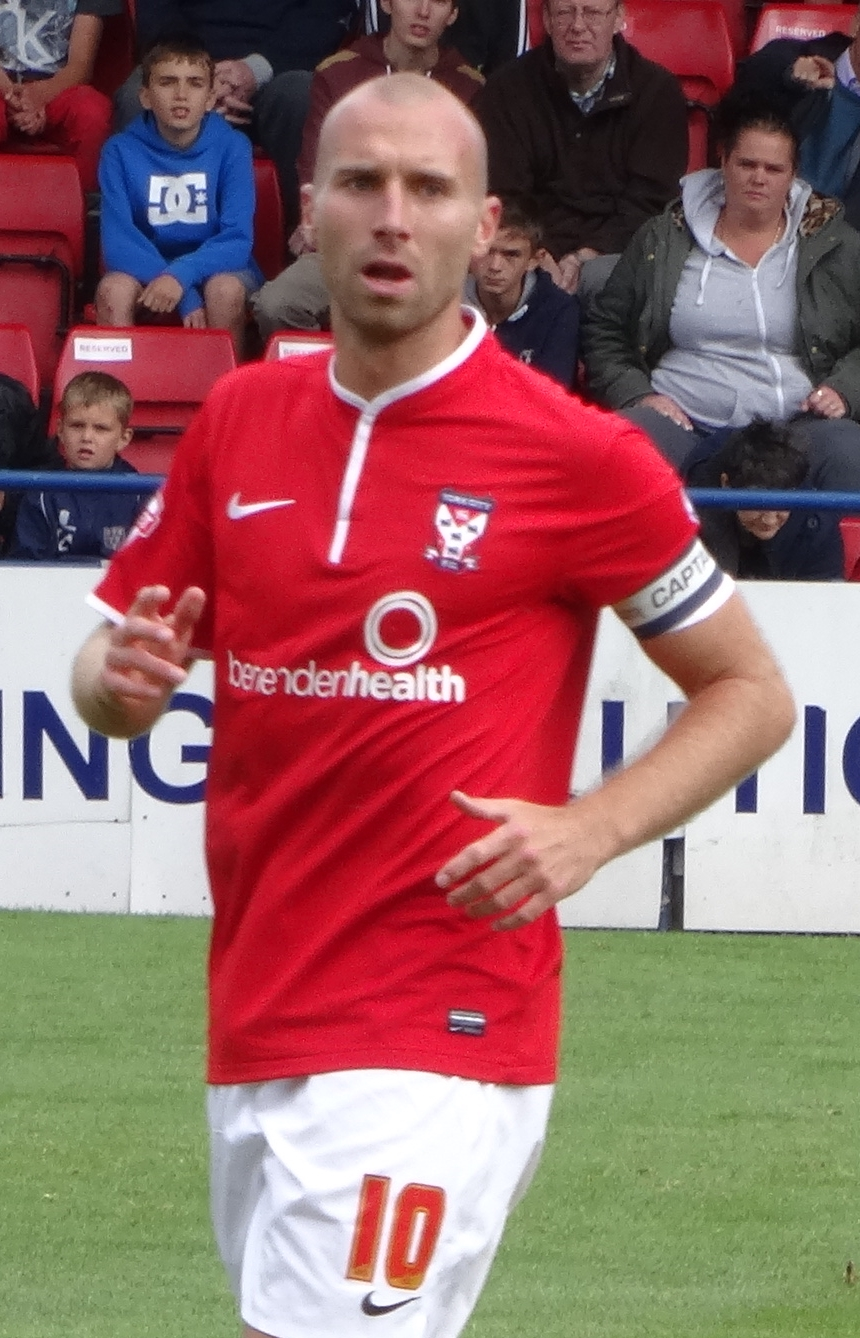 Russell Penn playing for York City against Northampton Town at Bootham Crescent, York on 16 August 2014